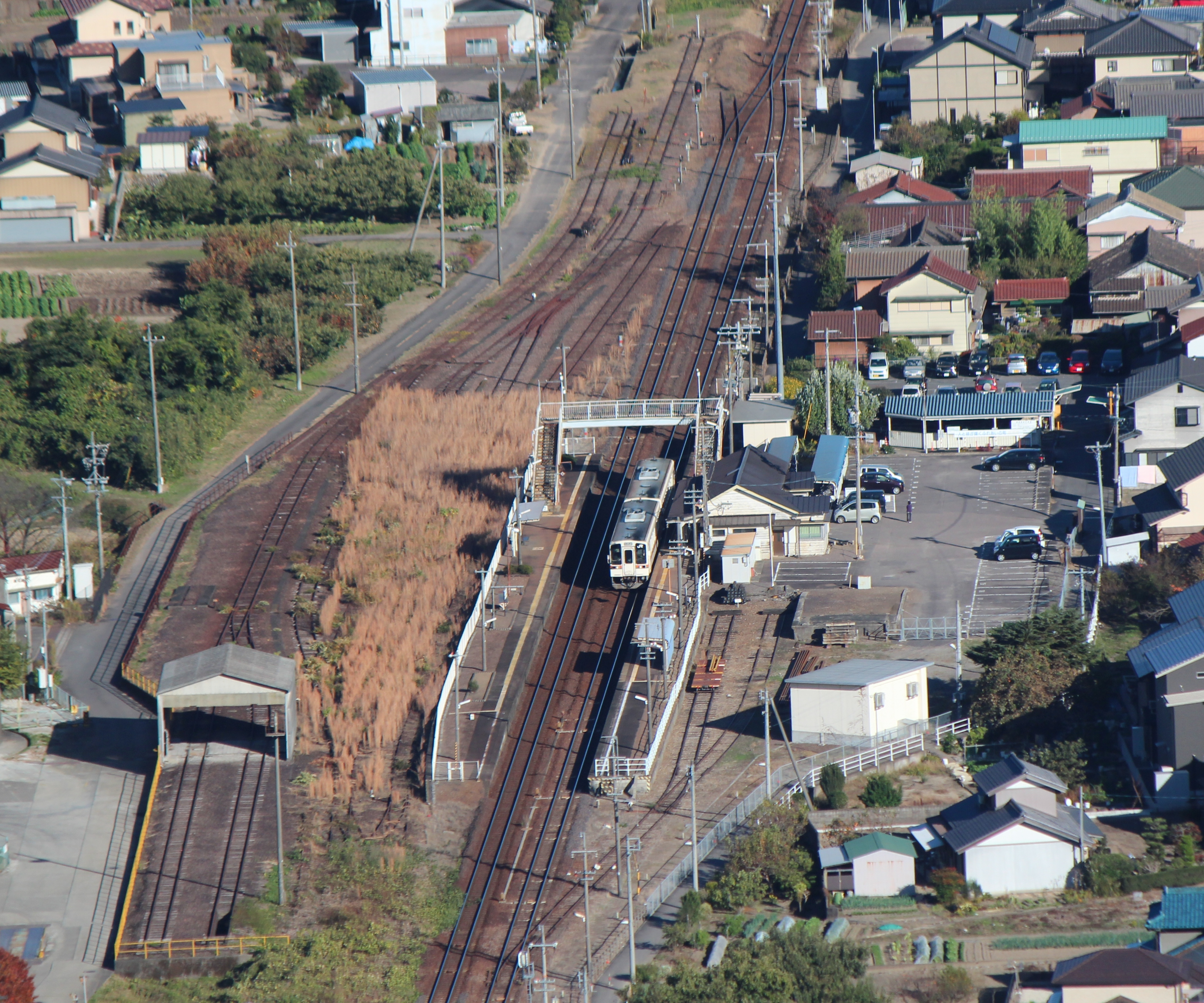 Sakahogi Station of Takayama Main Line